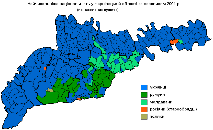 Largest ethnic groups in Chernivtski oblast according to 2001 census